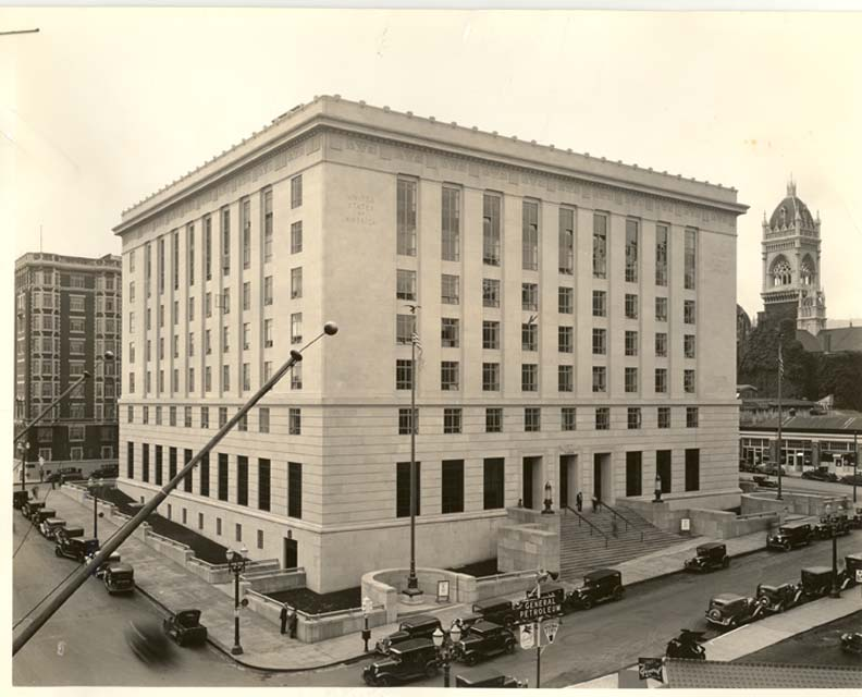 Gus J. Solomon Courthouse in Portland, Oregon. Circa 1933 picture from here. Category:Federal courthouses of the United States